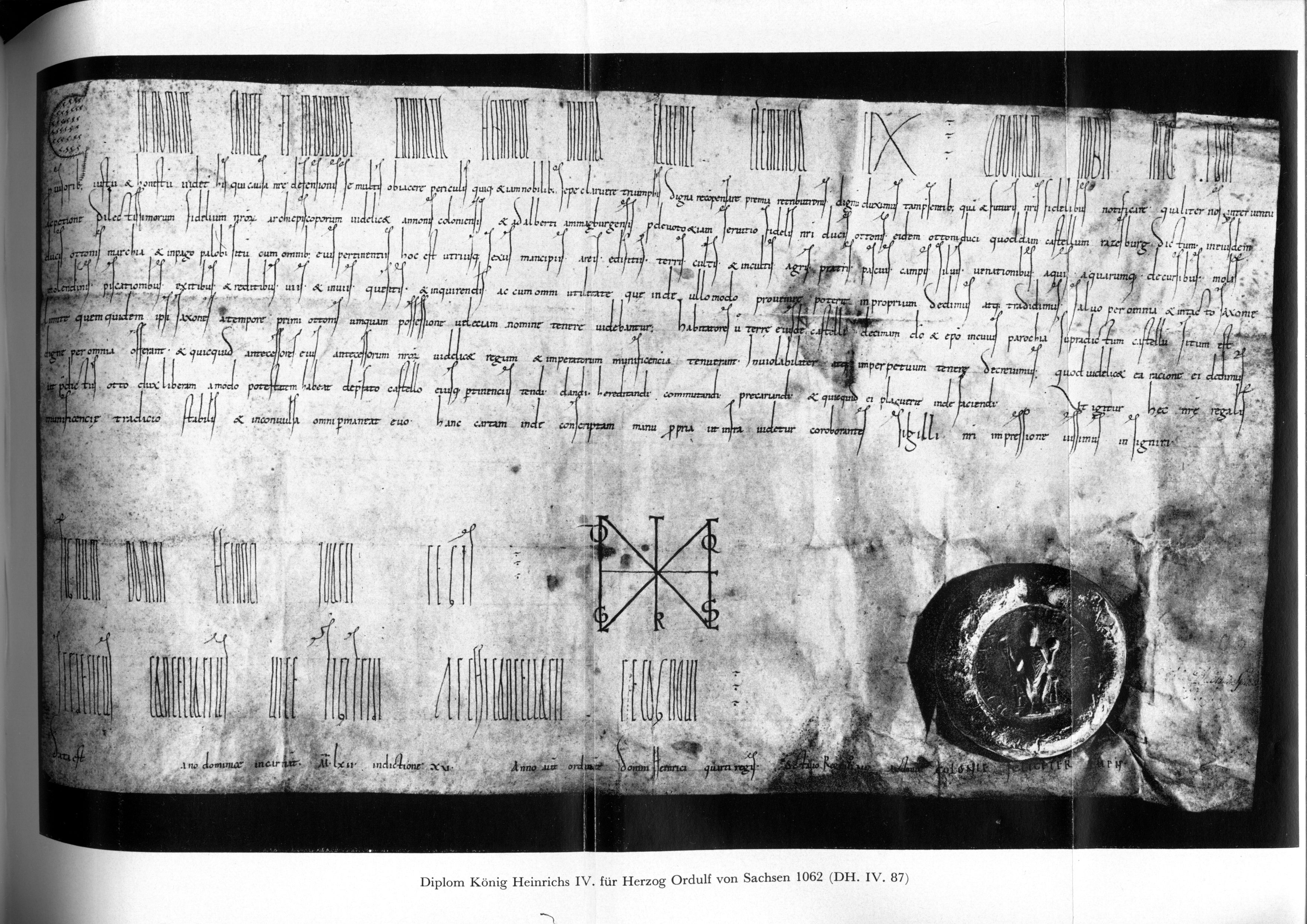 A charter of king Henry IV (Germany) for Ordulf, Duke of Saxony. Karlsruhe, Generallandesarchiv.